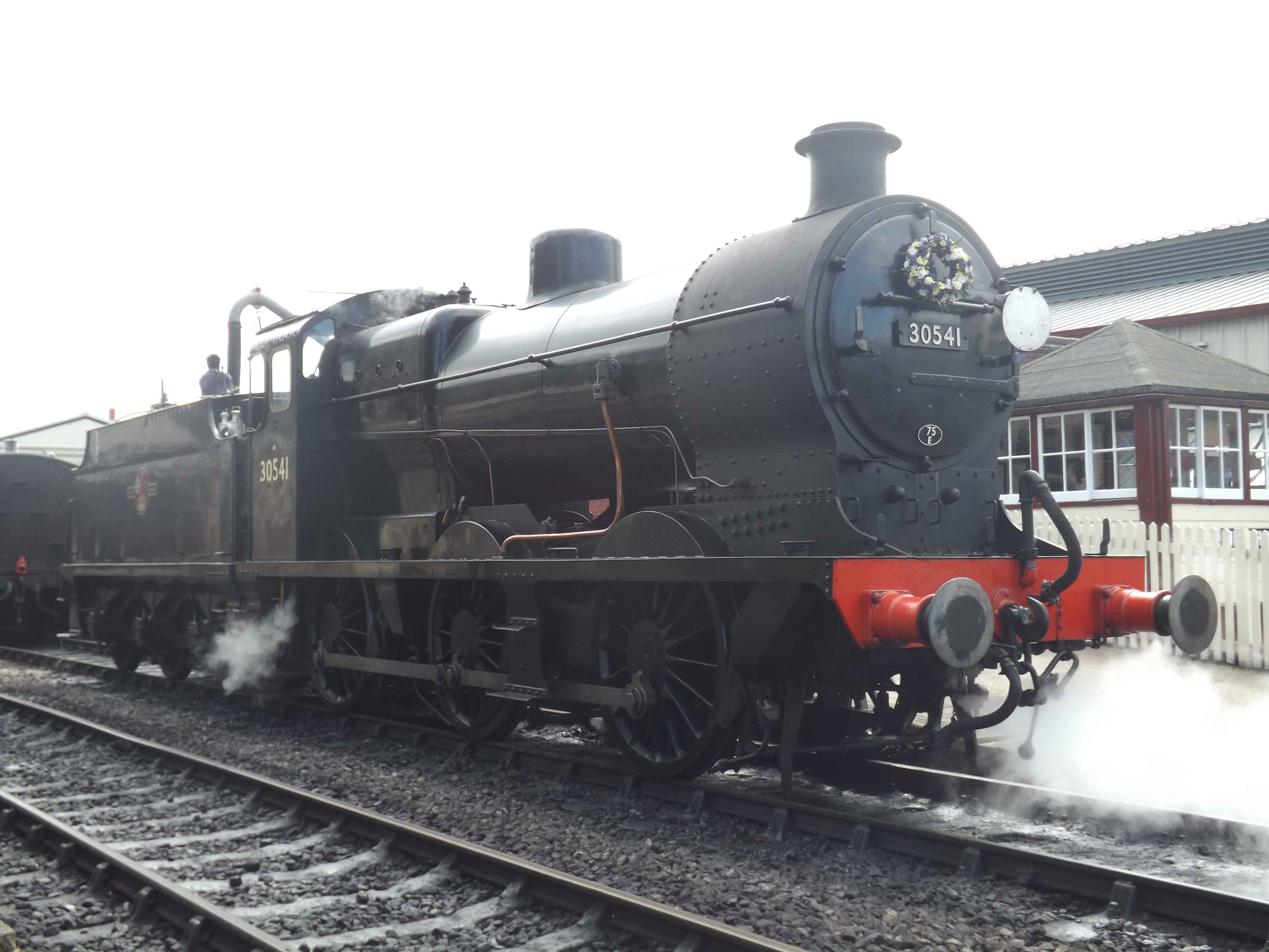 SR Q Class 0-6-0 No. 30541 standing at Sheffield Park on the Bluebell Railway.